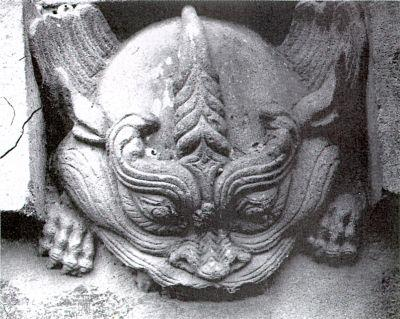 A "Taotie" design on a tower of the Shen Family Mausoleum Gate in Qu County, Sichuan